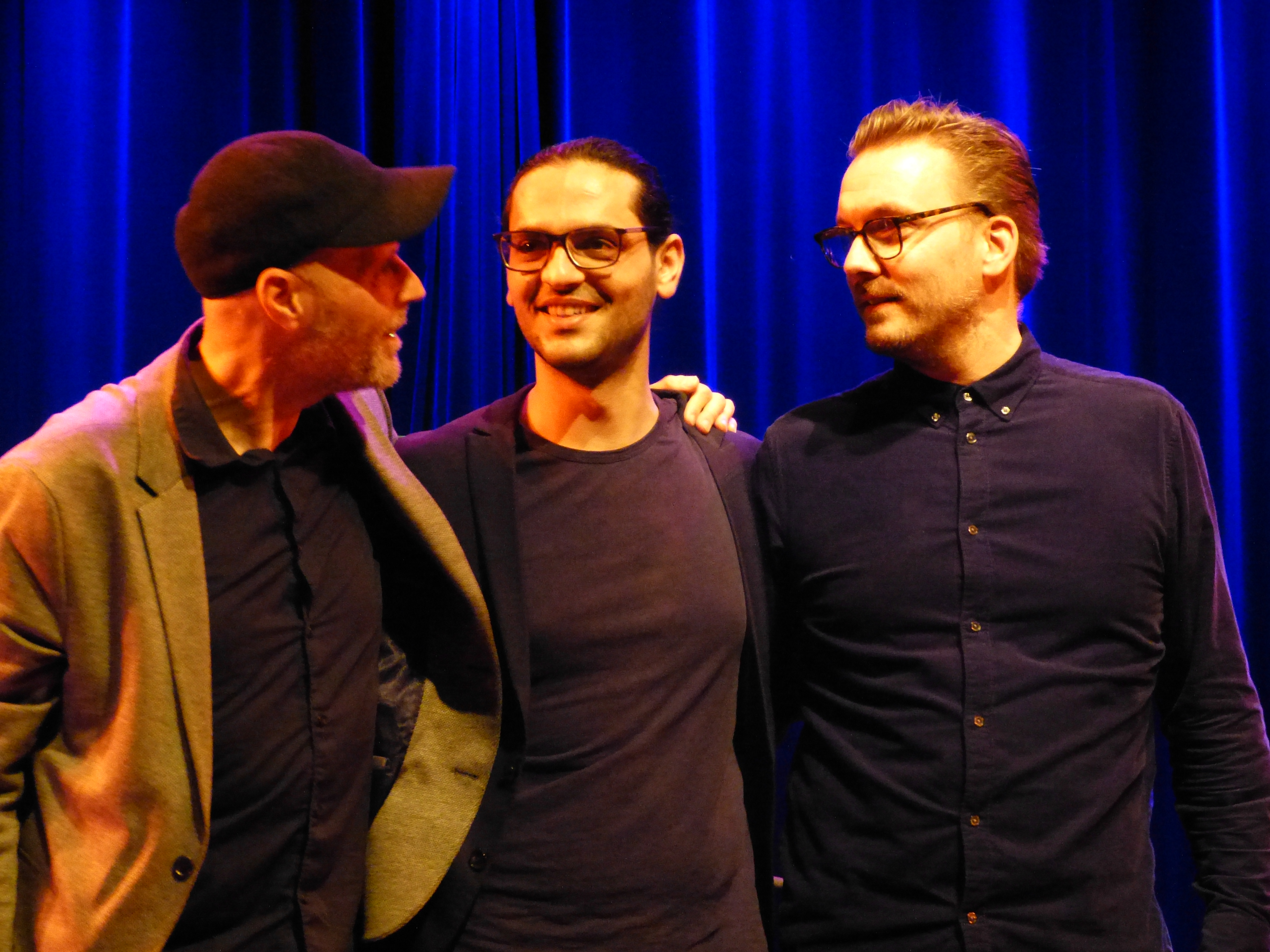 "Adamas Circus" (Martin Fondse (tasten instruments), Felix Schlarmann (dr) and Modar Salama (perc)) in concert at Jazzfest Minifest of the Bimhuis in Amsterdam, The Netherlands, January 4th, 2020